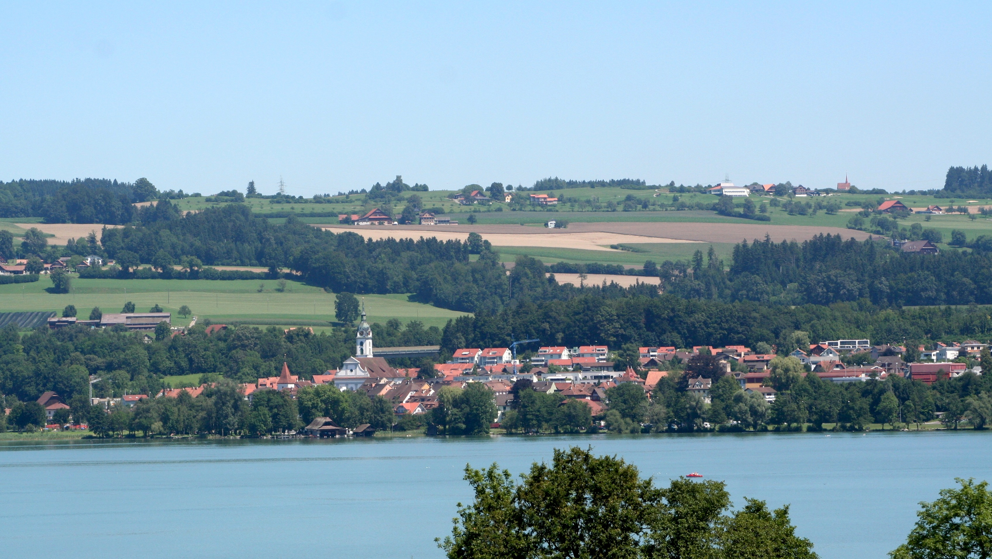 Sempach: Sempach